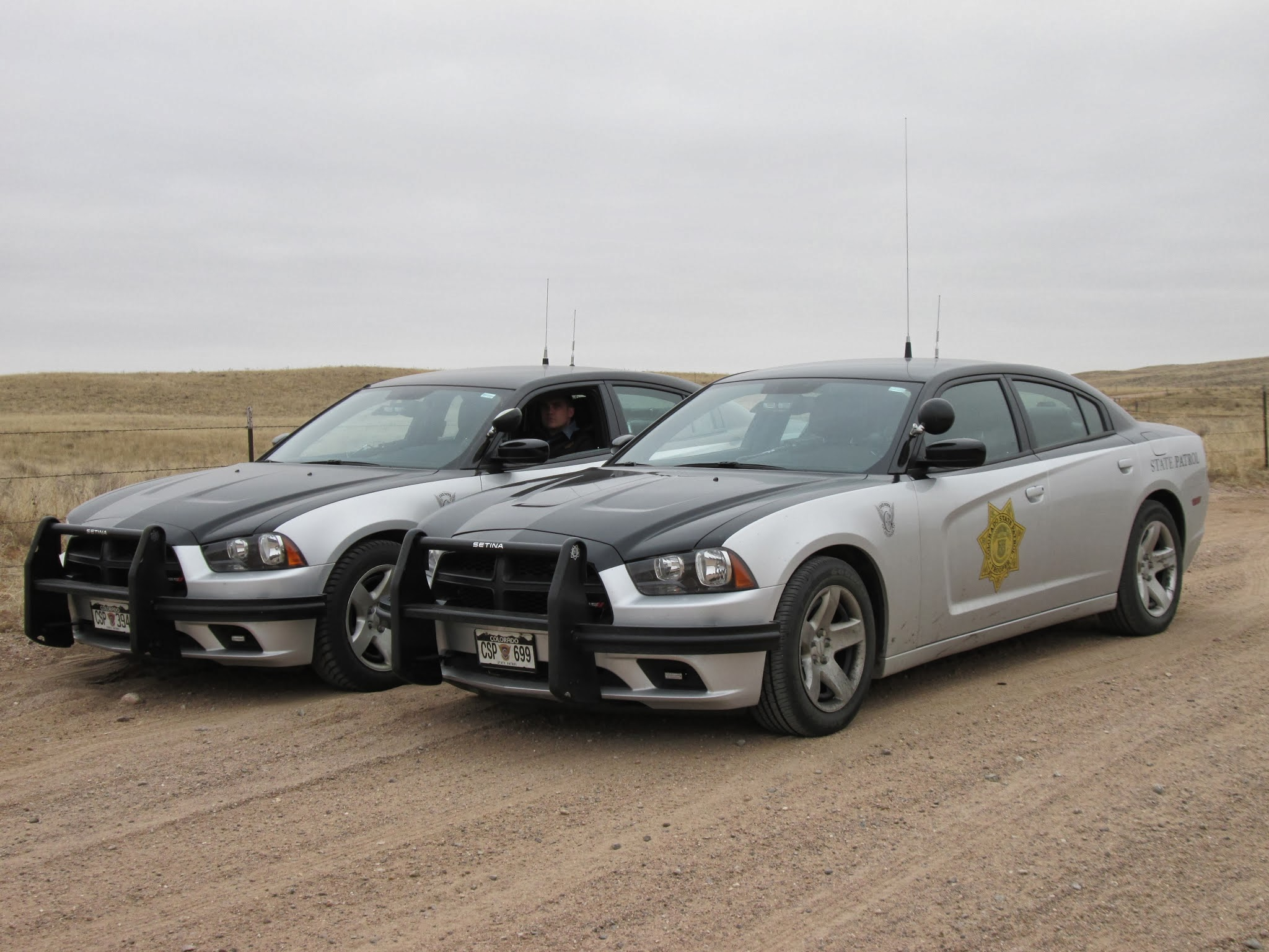 Colorado State Patrol Dodge Charger Patrol Vehicles